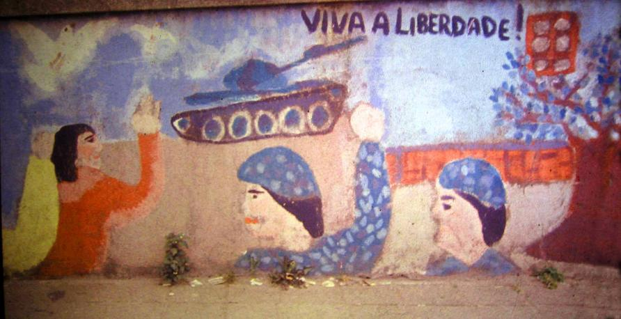 Long live freedom